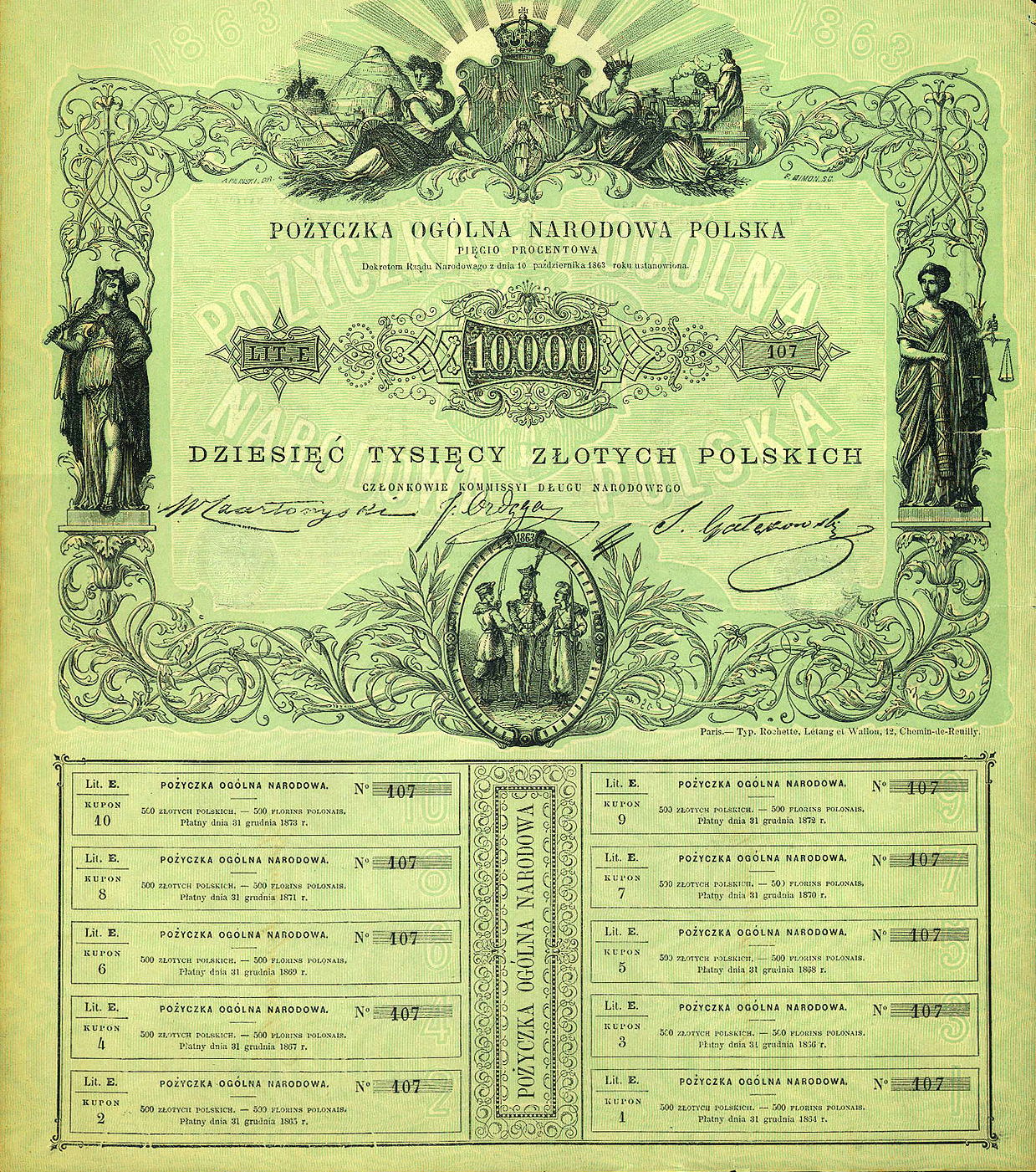 Polish National Loan of January Uprising 1863